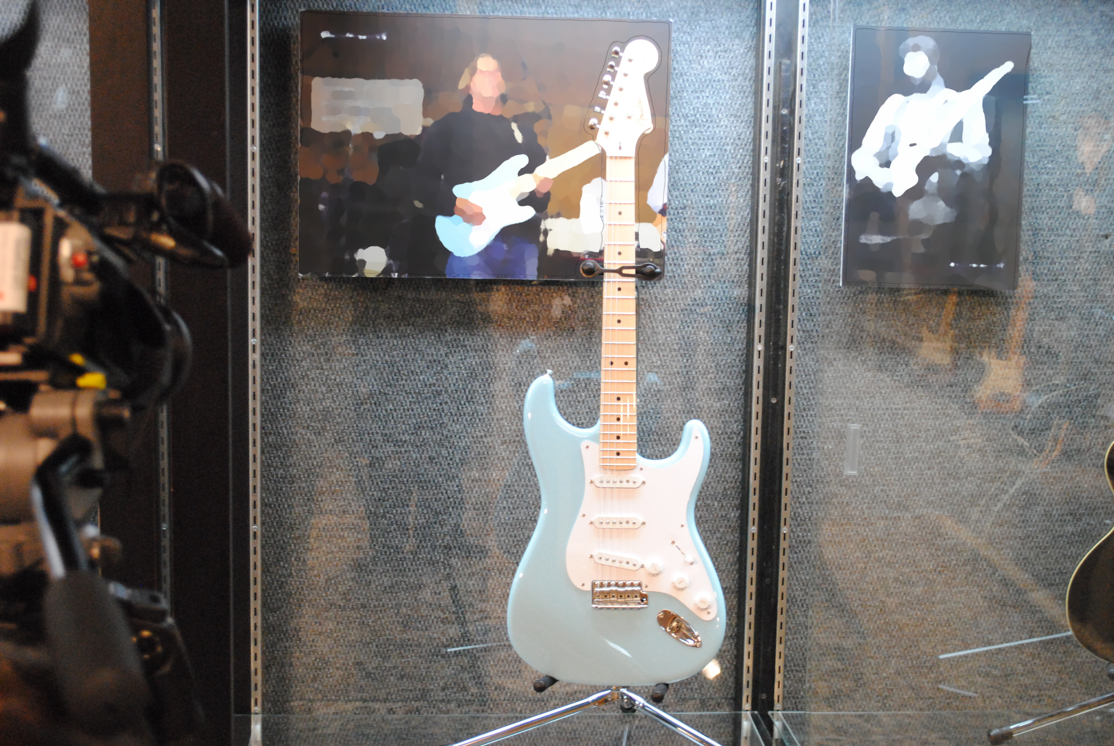 2008 Fender Stratocaster Eric Clapton Signature Model, Serial No. CZ512926, in Daphne Blue finish. 9 Mar 2011 13:00 EST New York, The Eric Clapton sale of Guitars and Amps in aid of the Crossroads Centre. Bonhams.